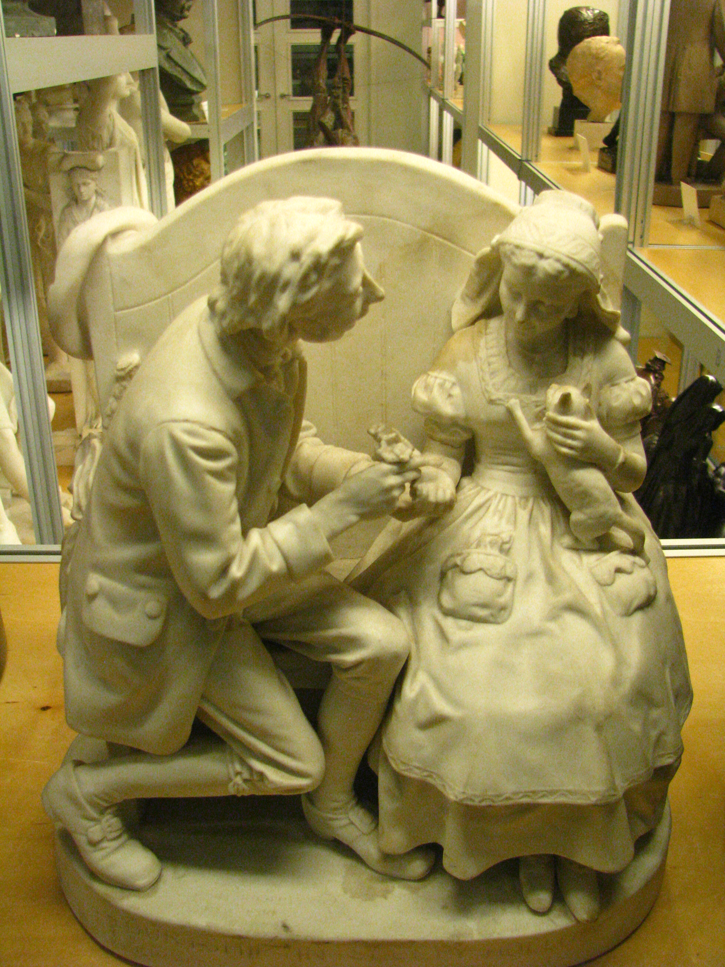 John Rogers (1829 - 1904). Courtship In Sleepy Hollow, or Ichabod Crane and Katrina Van Tassel, 1868. Parian ceramic, 14 1/4 x 12 1/2 x 7 in. ( 36.2 x 31.8 x 17.8 cm ). Gift of Mr. Samuel V. Hoffman. New-York Historical Society, 1926.33. Wikipedia Loves Art at the New-York Historical Society This photo of item # [1] at the New-York Historical Society was contributed under the team name "the_adverse_possessors" as part of the Wikipedia Loves Art project in February 2009. New-York Historical Society The original photograph on Flickr was taken by _cck_—please add a comment to the original Flickr page whenever a use has been made on Wikipedia or another project. Project galleries on Flickr: this institution, this team